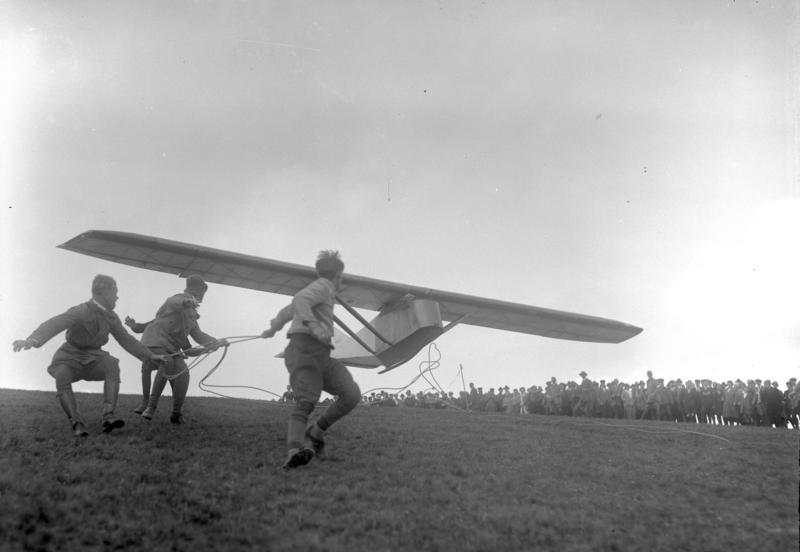 Sail flight competition. Launch of a sail plane on the Wasserkuppe. The starting crew, which is pulling the plane, is about to throw itself down so as not to be struck by the sailplane.